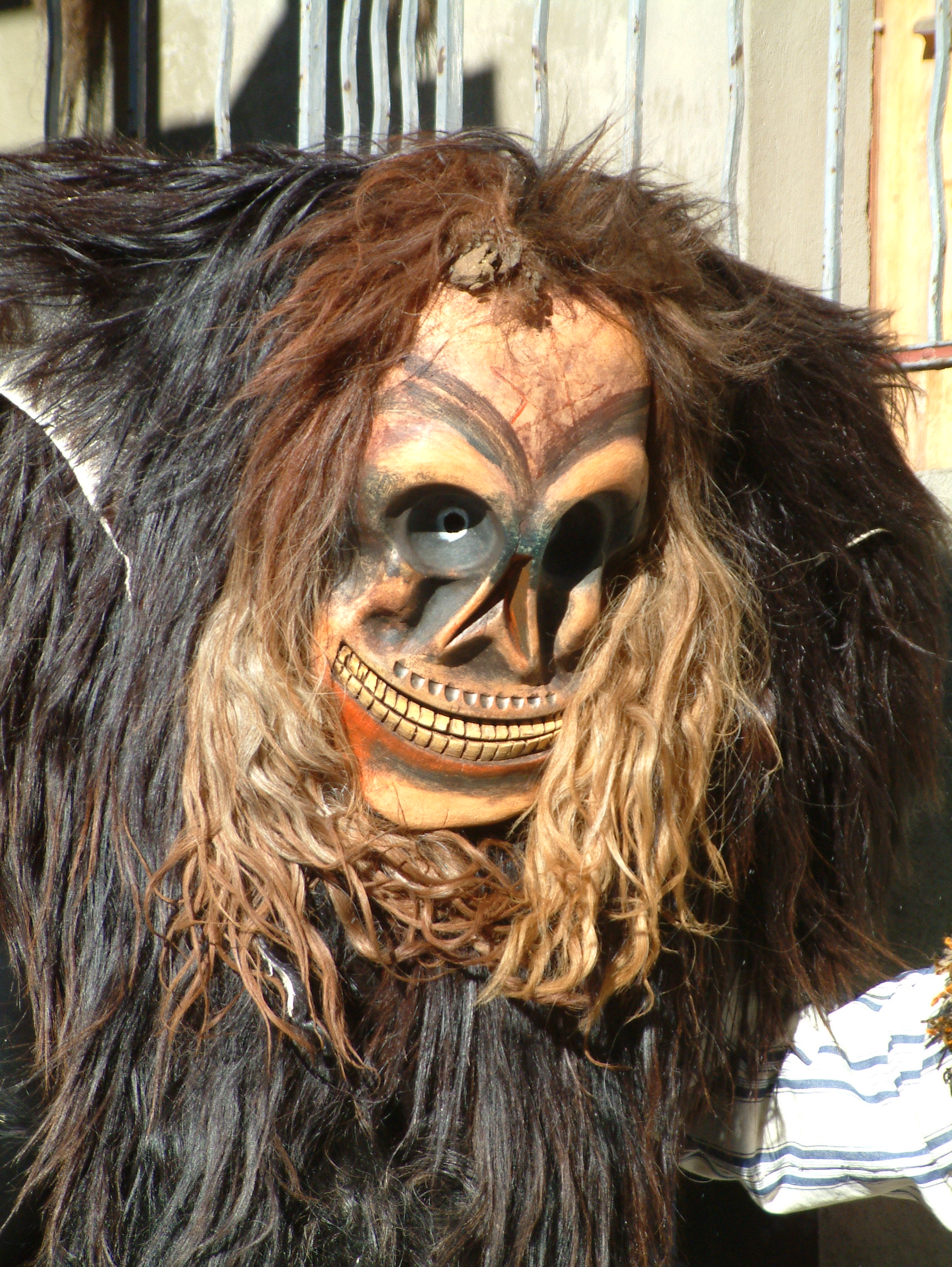 Tschäggättä, costumed figures wearing wooden masks during Carnival in Lötschental/Switzerland. Displayed at Lötschentaler Museum - Kippel.